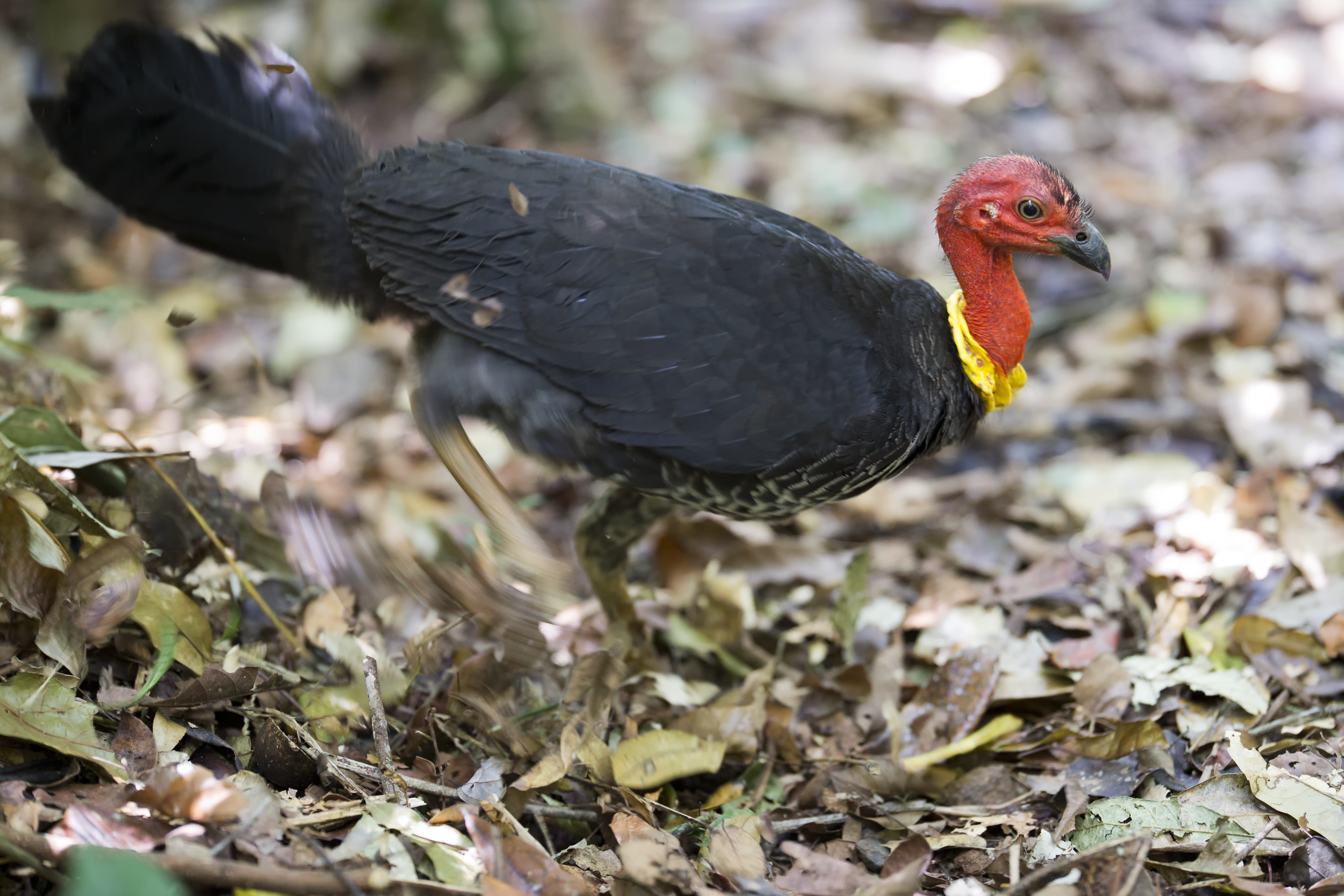 Australian Brush-turkey (Alectura lathami) in North Queensland